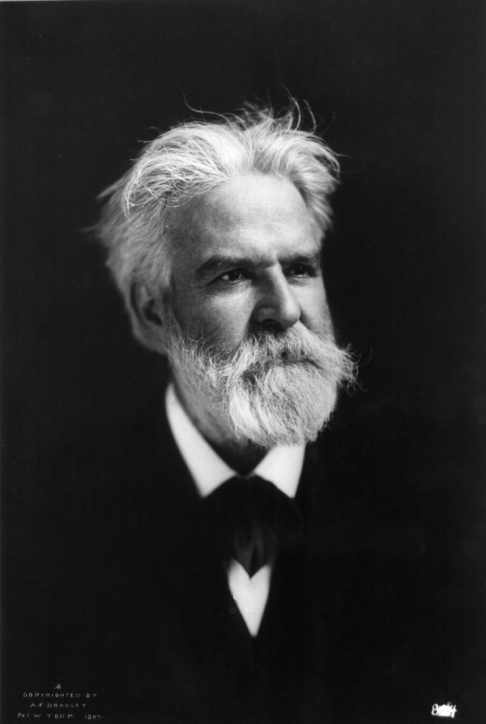 Edwin Markham, American poet